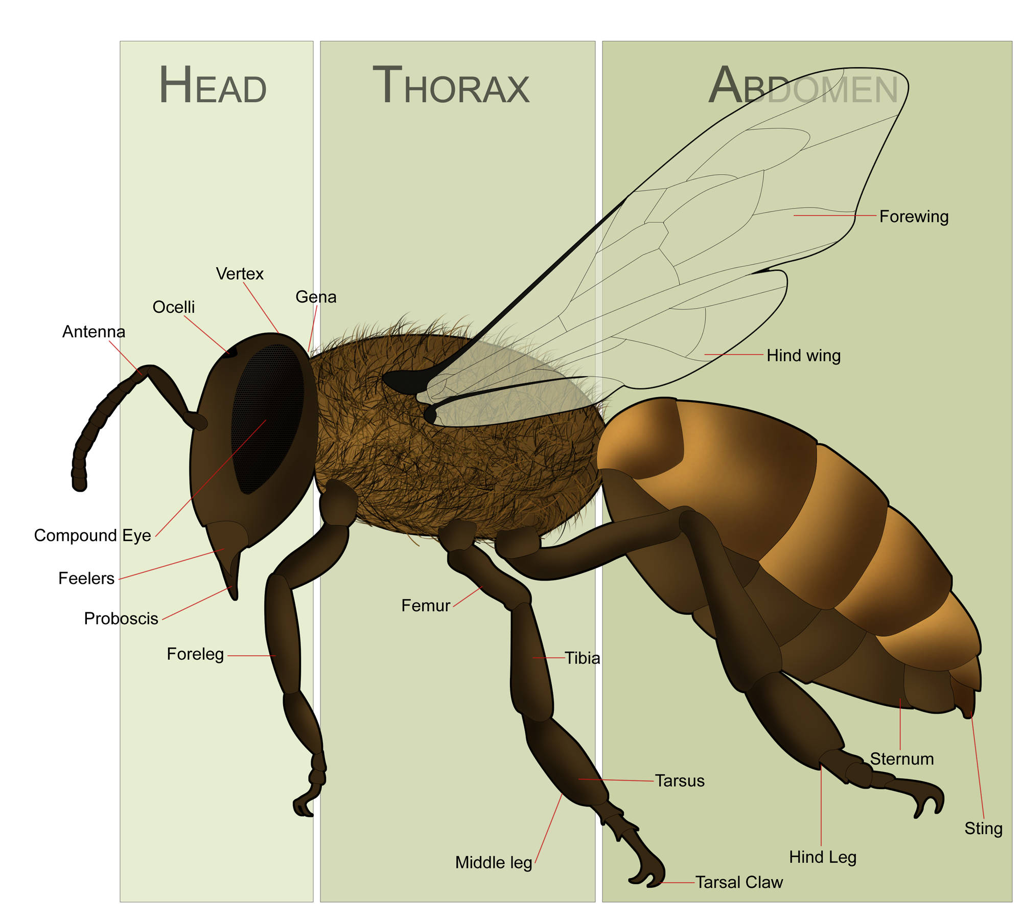 Female Honey Bee Morphology for the article on Bees. It can be identified as a female by both the number of divisions on its antenna and by its sting.